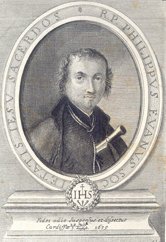 Engraving of Saint Philip Evans: from the Galerie illustrée de la Compagnie de Jésus de Alfred HAMY, vol.3, 1893.